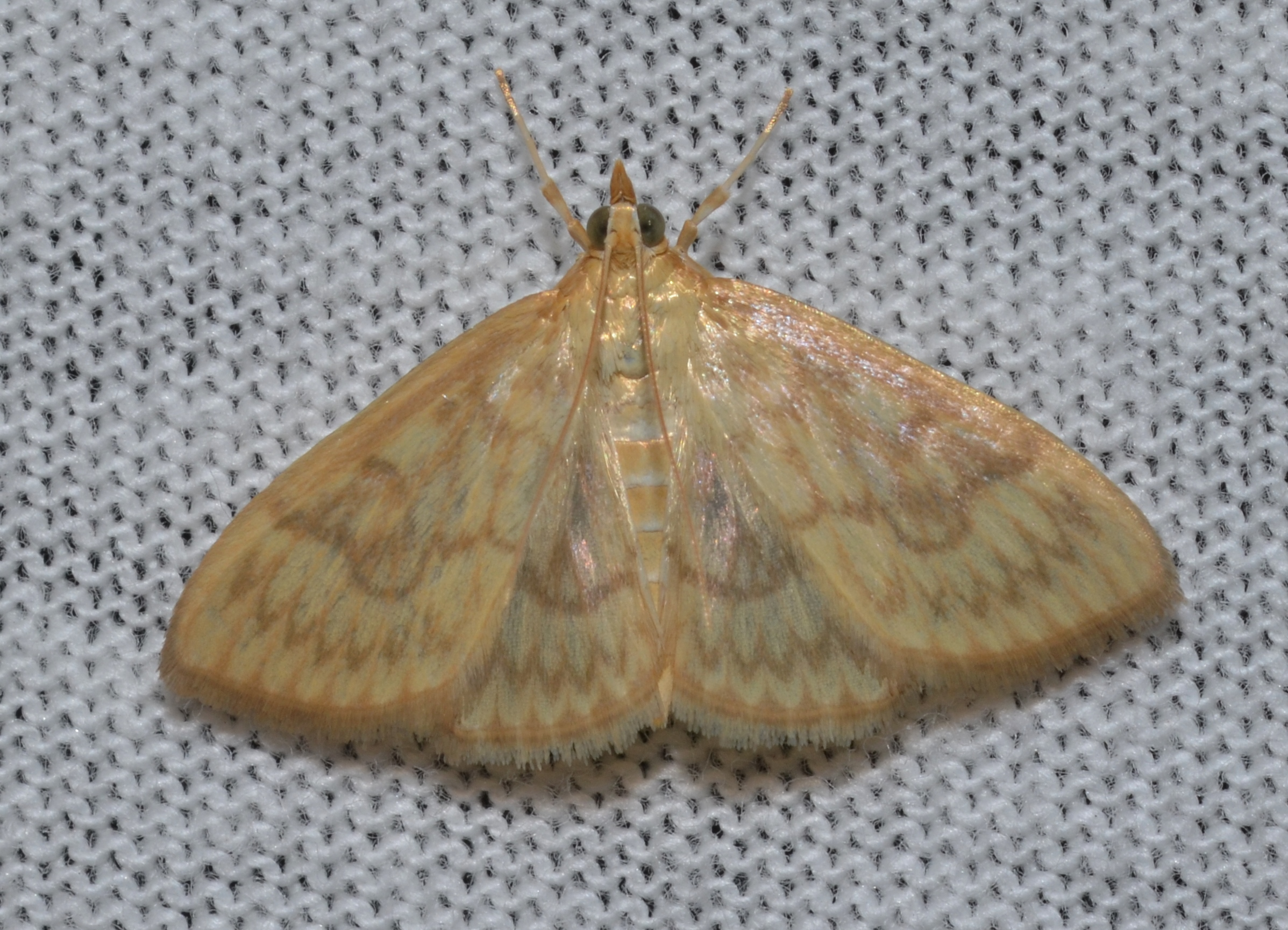 Mothing 8/2/14